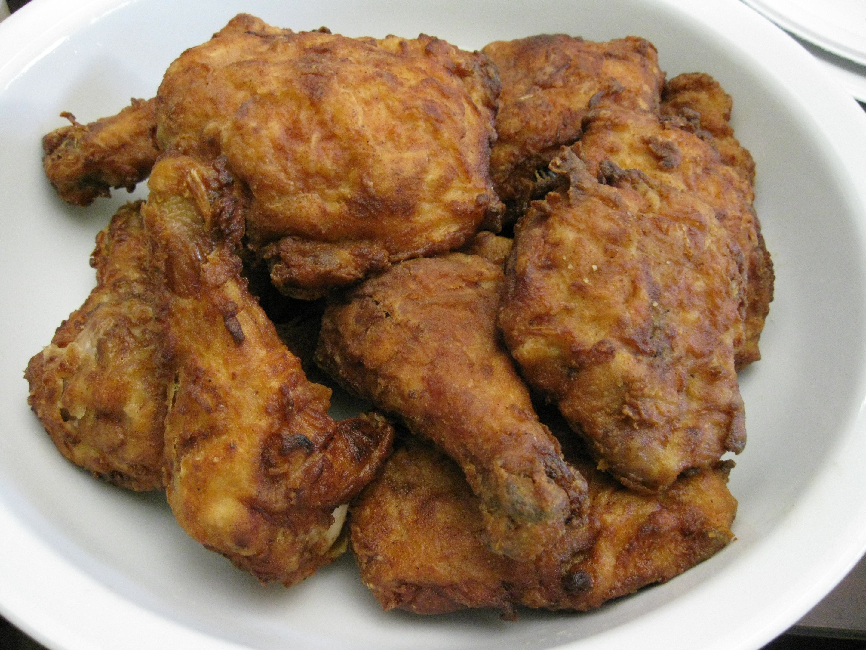 Fried chicken.